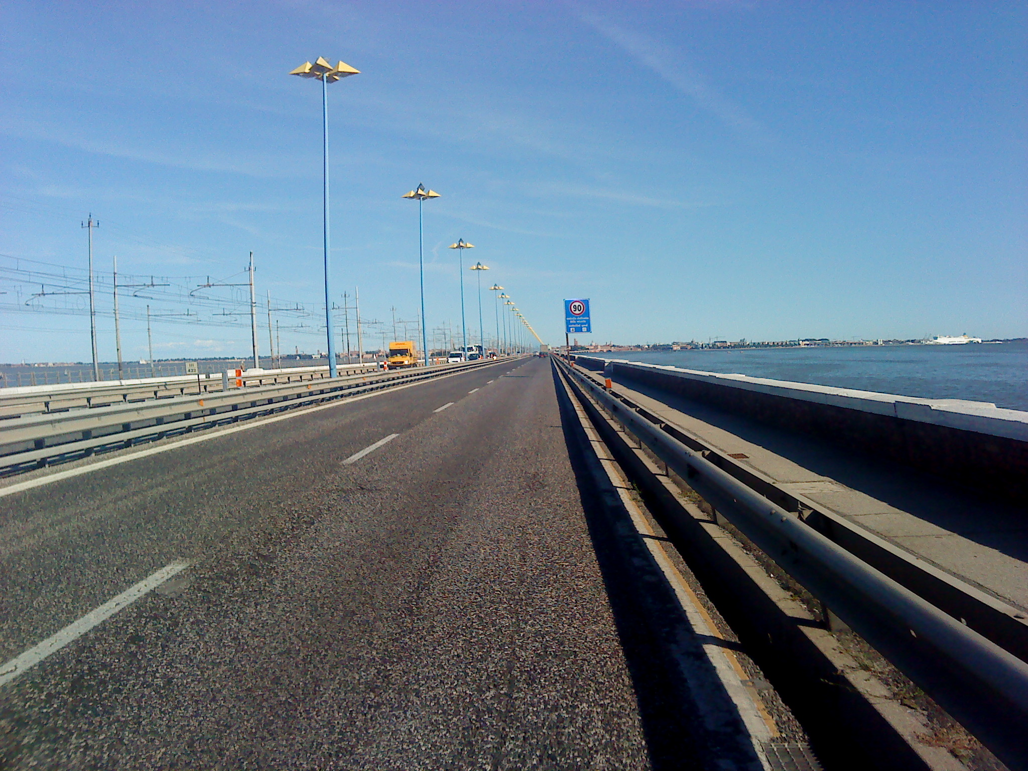 Picture of Ponte della Libertà (Brigde to Venedig), towards Venice photographed